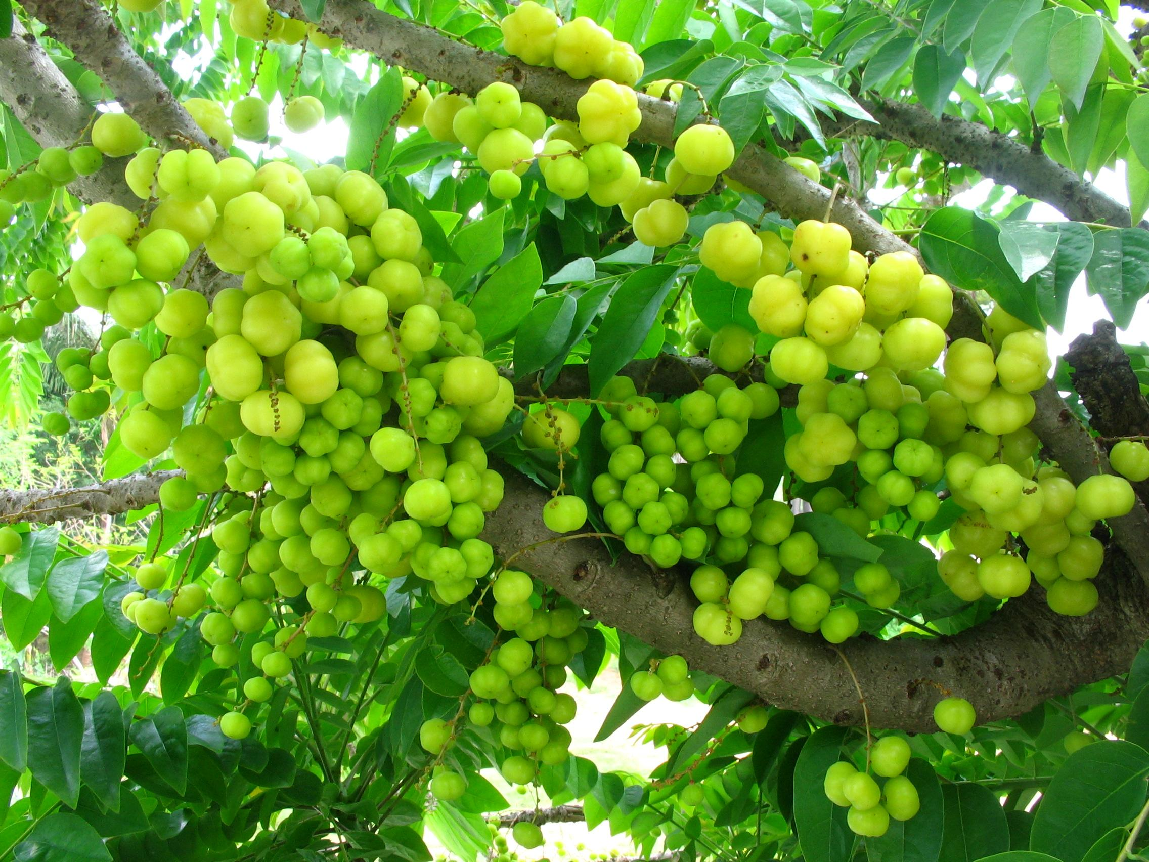 Otaheitegooseberry